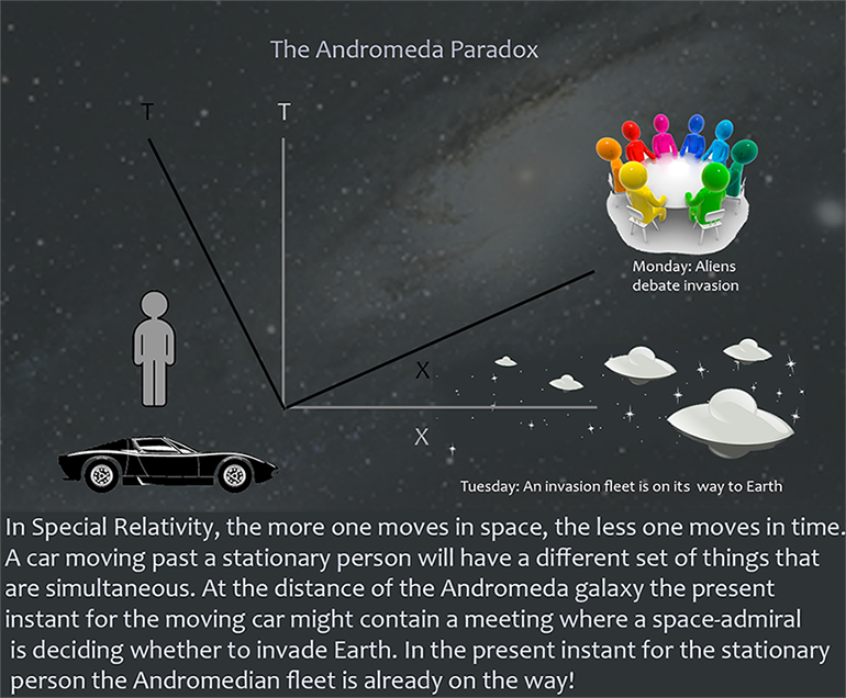 An illustrative demonstration of the Andromeda-Paradox